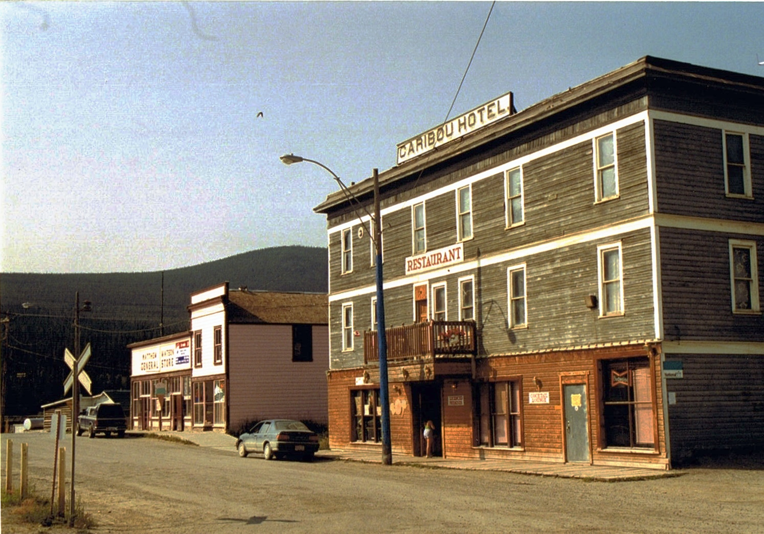 Hotel in the center of Carcross, Yukon scanned image